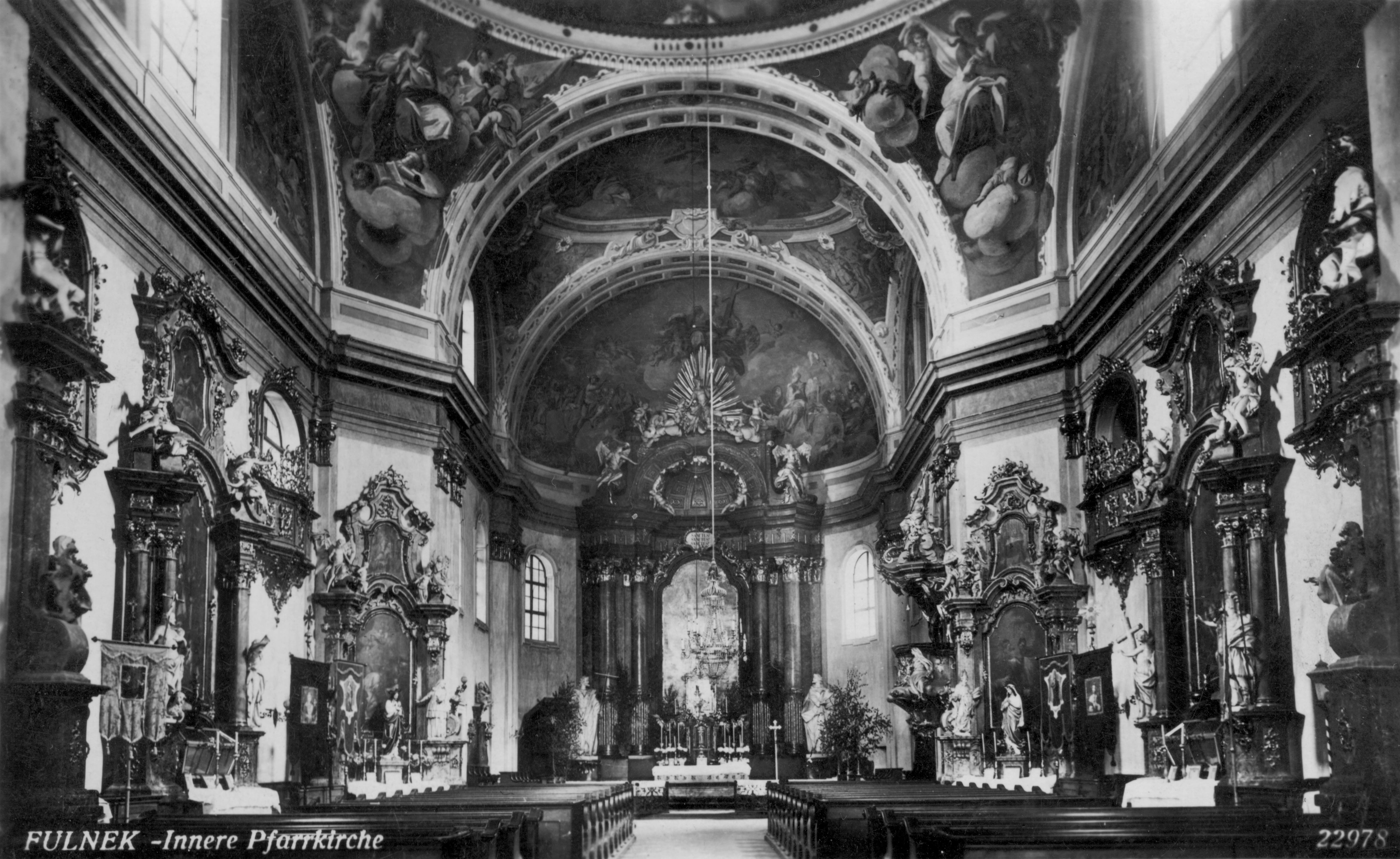 Most Holy Trinity Church in Fulnek, Czechia. The interior in the early 20th century.